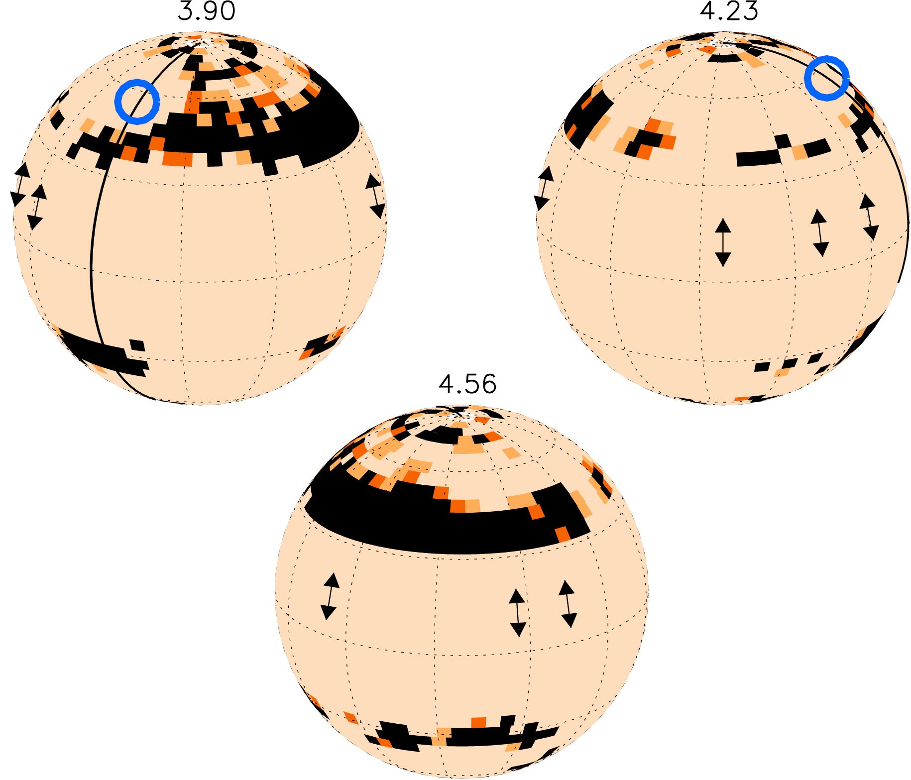 Doppler maps of the highly active star BO Mic ('Speedy Mic') at different rotation phases (indicated on top of the maps). Spot coverage is rendered as black, dark and light orange areas, representing 100%, 67% and 33% spot coverage, respectively. A few spots are near the visible pole, while most spots are asymmetrically distributed at mid-latitudes. The blue circle indicates the flare observed in October 2006 using ESO's VLT and ESA's XMM-Newton satellite. Grid lines mark latitudes and longitudes in 30 degrees steps.